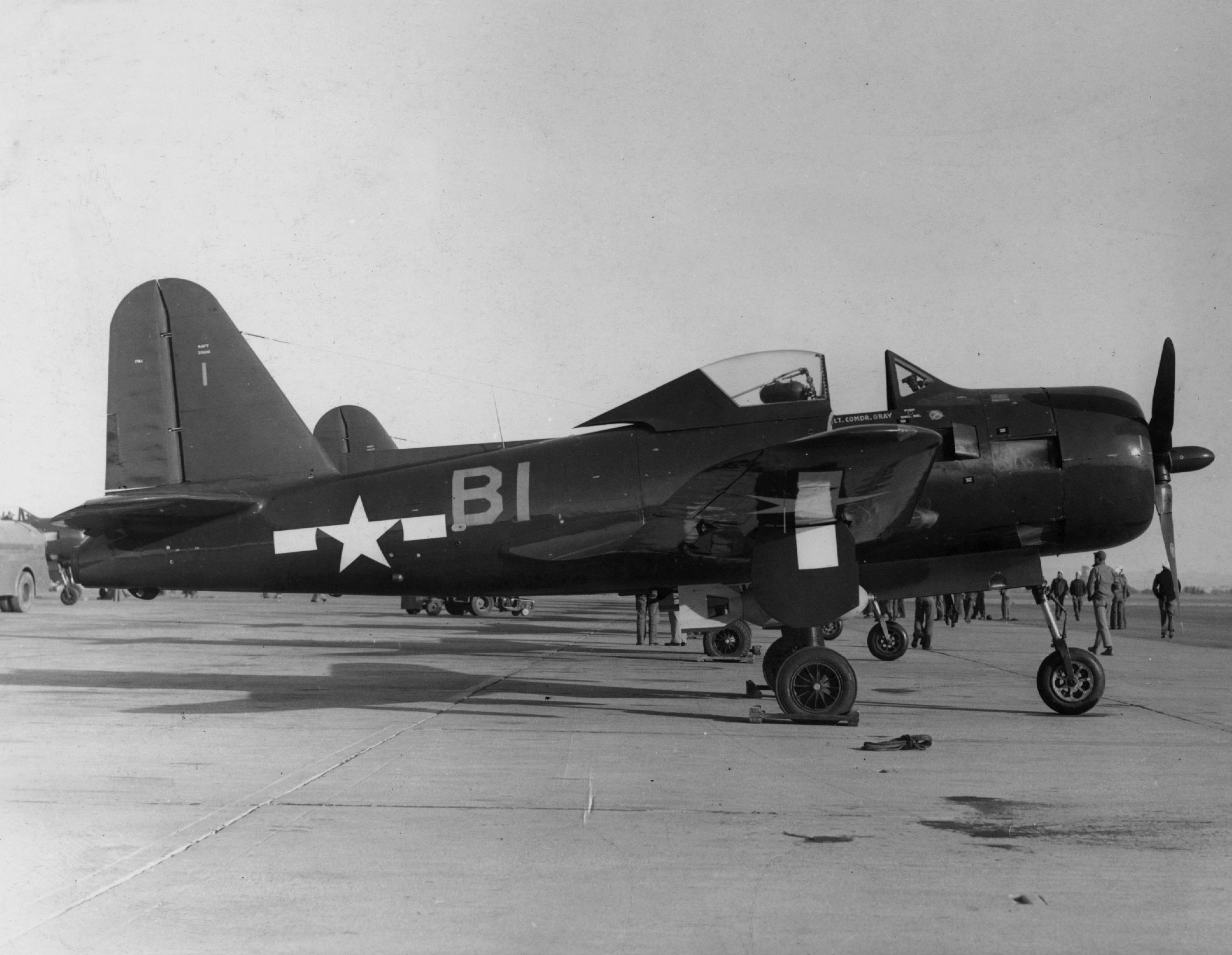 A U.S. Navy FR-1 Fireball of fighter squadron VF-66 at Naval Air Station North Island, California (USA), in 1945. This aircraft was assigned to the squadron CO, LCdr John Gray, who was later killed in a mid-air collision involving two FR-1s.